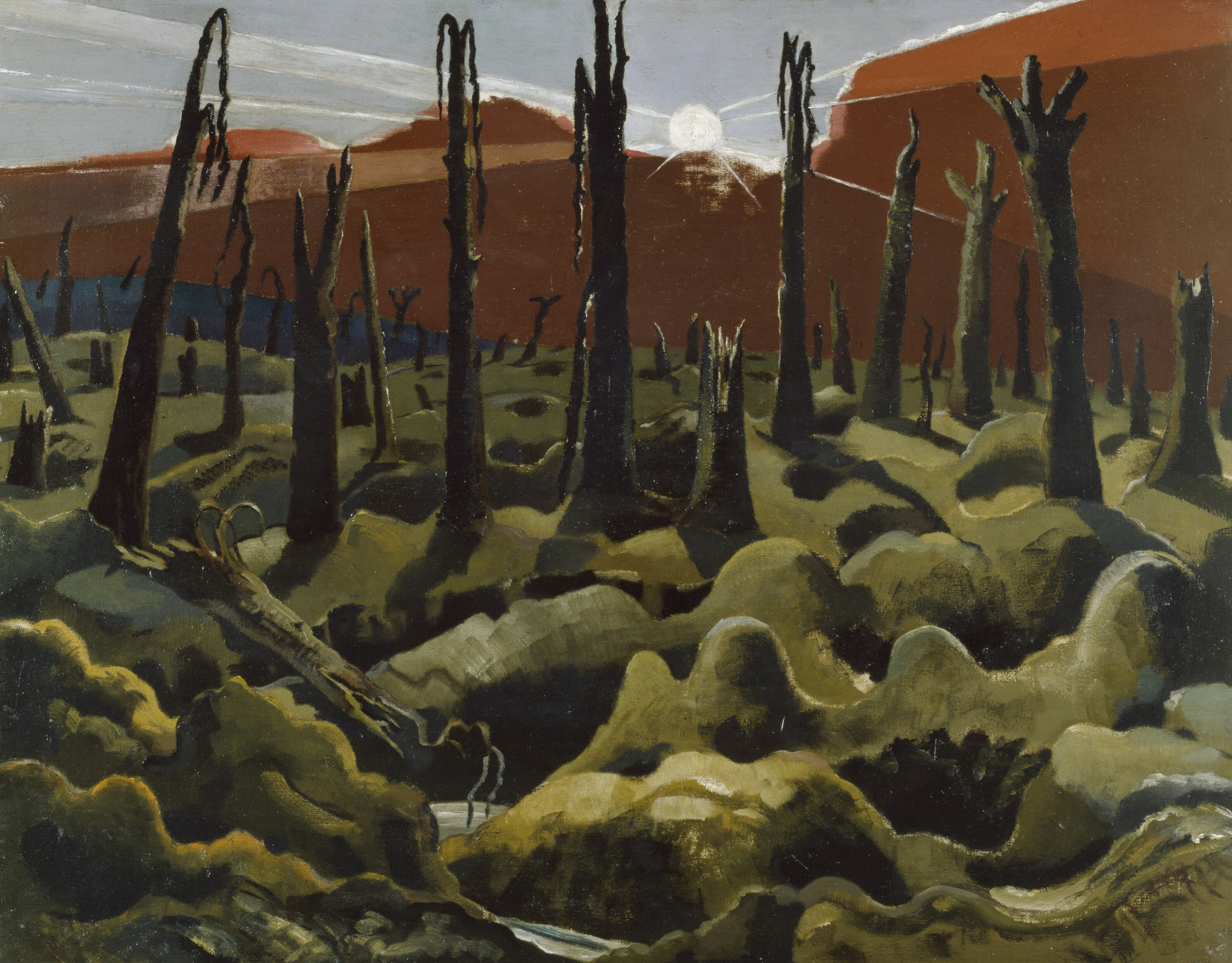 We are Making a New World image: The view over a desolate landscape with shattered trees, the earth a mass of shell holes. The sun hangs high in the sky, beams of light shining down through heavy, earth-coloured clouds.